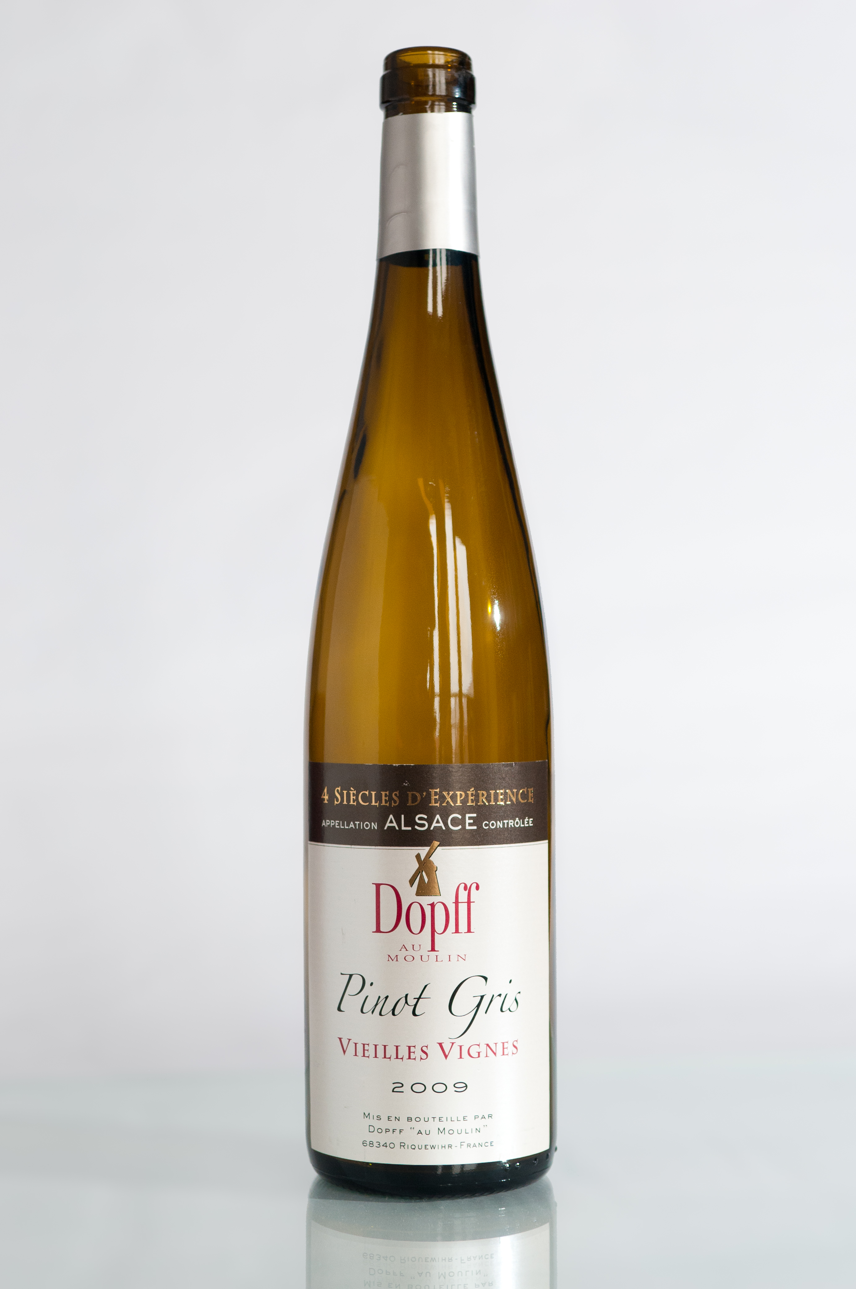 Strobist information: - the number of flashes used: 1 at manual 1/64 + natural light - where the flashes are placed in relation to the subject or camera: right from the object, slightly behind, almost on the same level as the object - how the flashes were modified (umbrella, soft box, beauty dish, snoot, etc.): nothing was added - how they were triggered: wireless trigger Yongnuo RF-602TX + Yongnuo RF-602RX - technique: white background on a stand, white paper on a table + piece of glass below the bottle + white paper on the left from the object to reflect the light